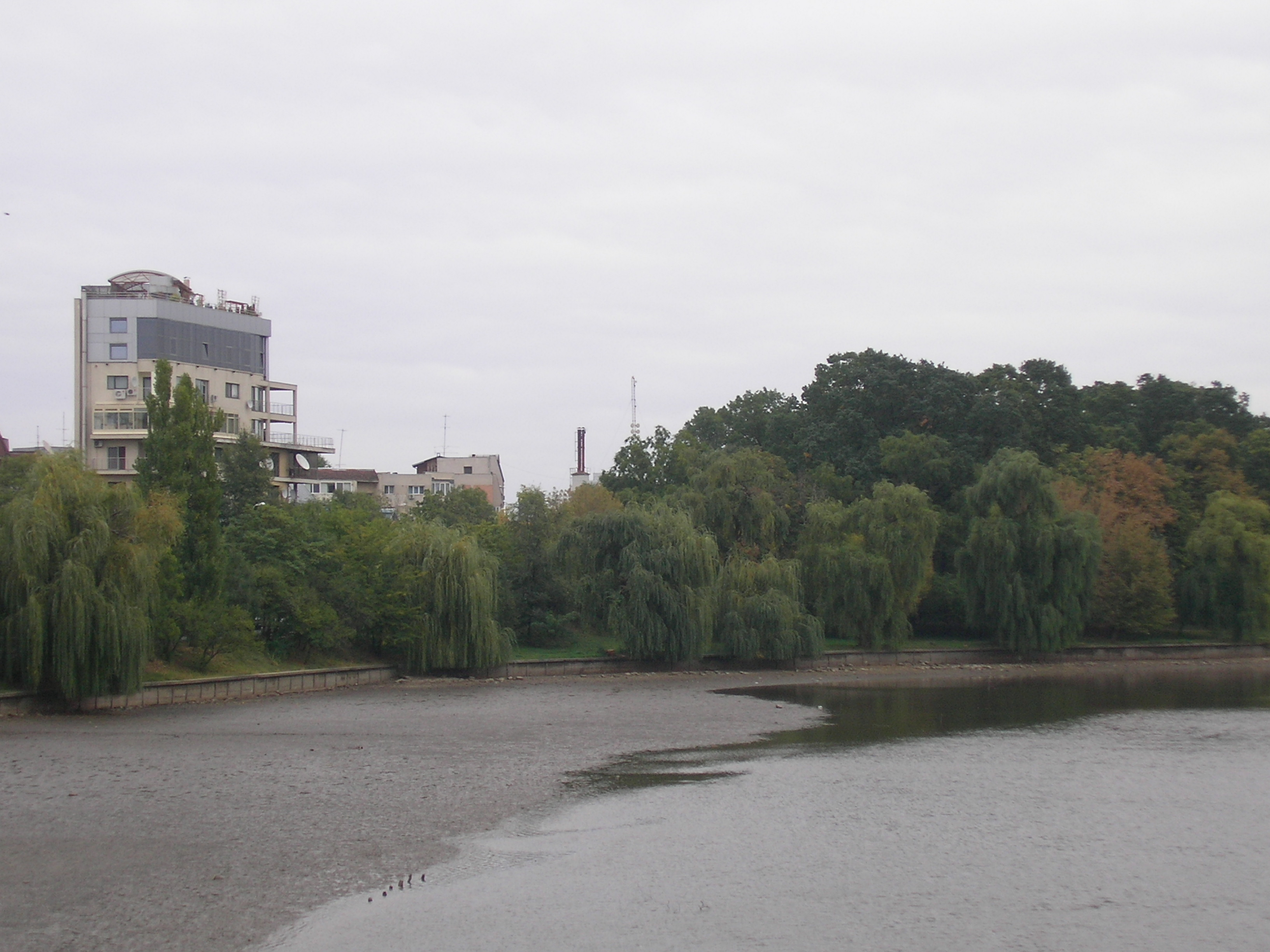 Băneasa Lake, Bucharest (view to the east from the Bucharest-Ploieşti Highway bridge)